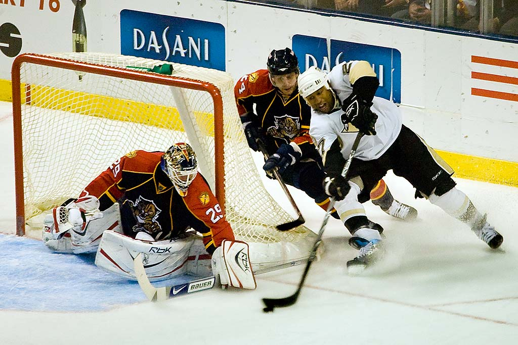 Tomas Vokoun, Ruslan Salei and Georges Laraque (Pittsburgh Penguins vs. Florida Panthers)